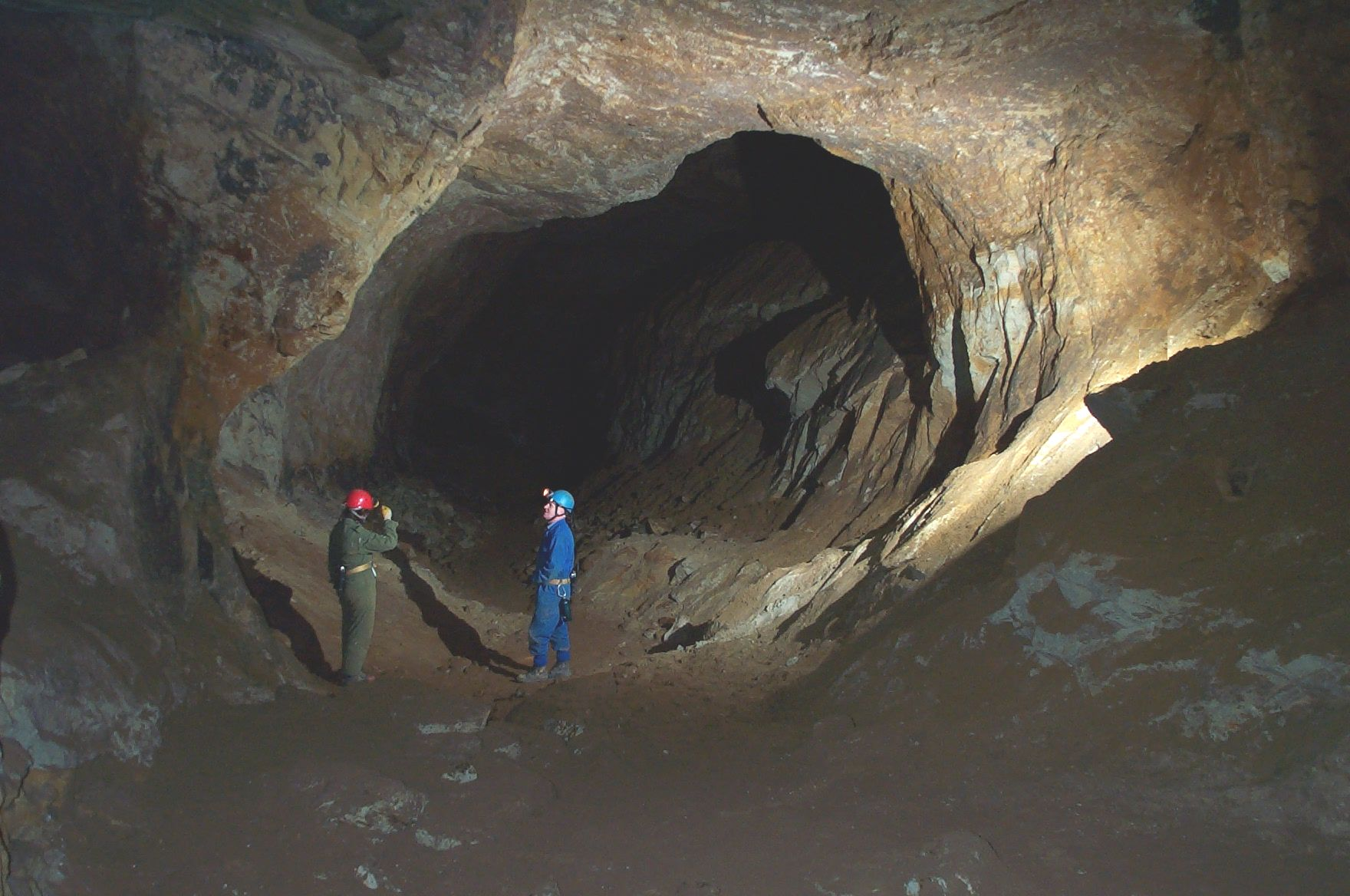 Photograph taken by Nigel Dibben.